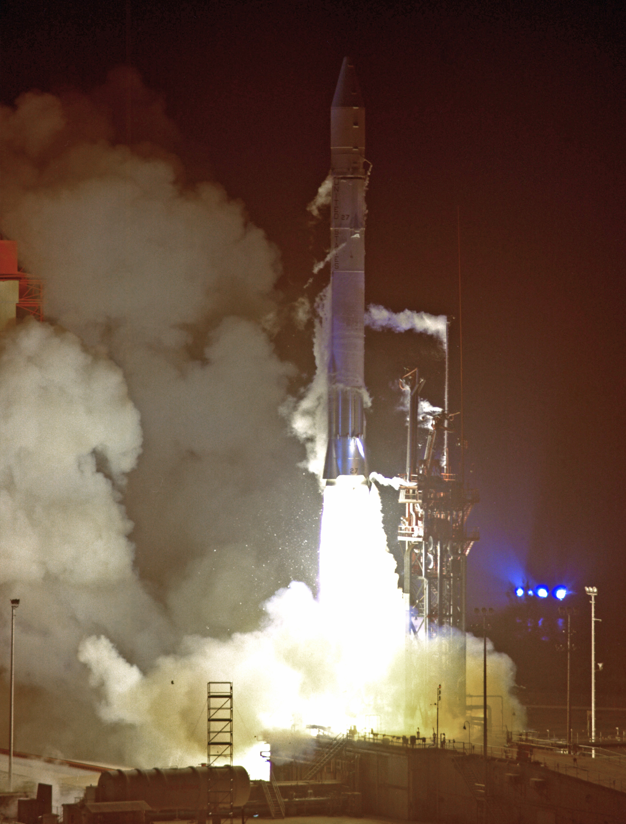 Launched on March 2, 1972, Pioneer 10 was the first spacecraft to travel through the asteroid belt, and the first spacecraft to make direct observations and obtain close-up images of Jupiter. Pioneer 10, now more than 7.5 billion miles from Earth, is the farthest spacecraft in the solar system.